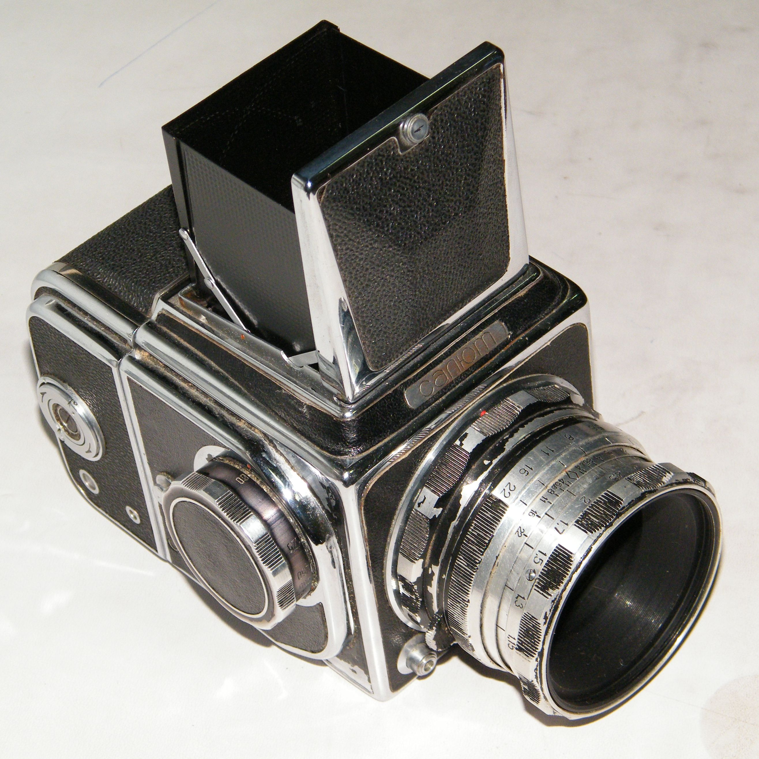 Salyut camera from Evgeniy Okolov collection